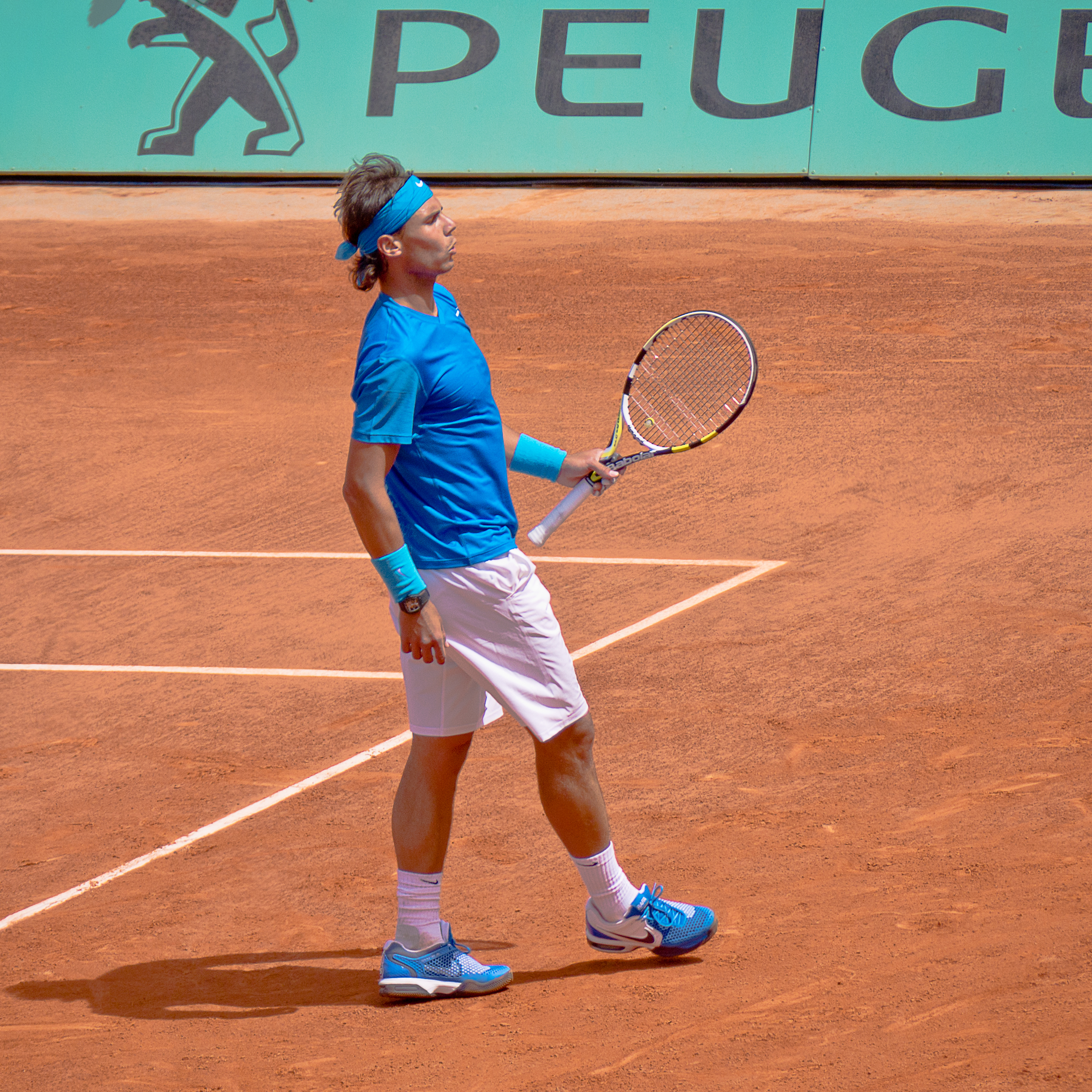 Rafael Nadal (ESP) def. John Isner (USA) Roland Garros 2011 - mardi 24 mai - 1er tour - Court Philippe Chatrier